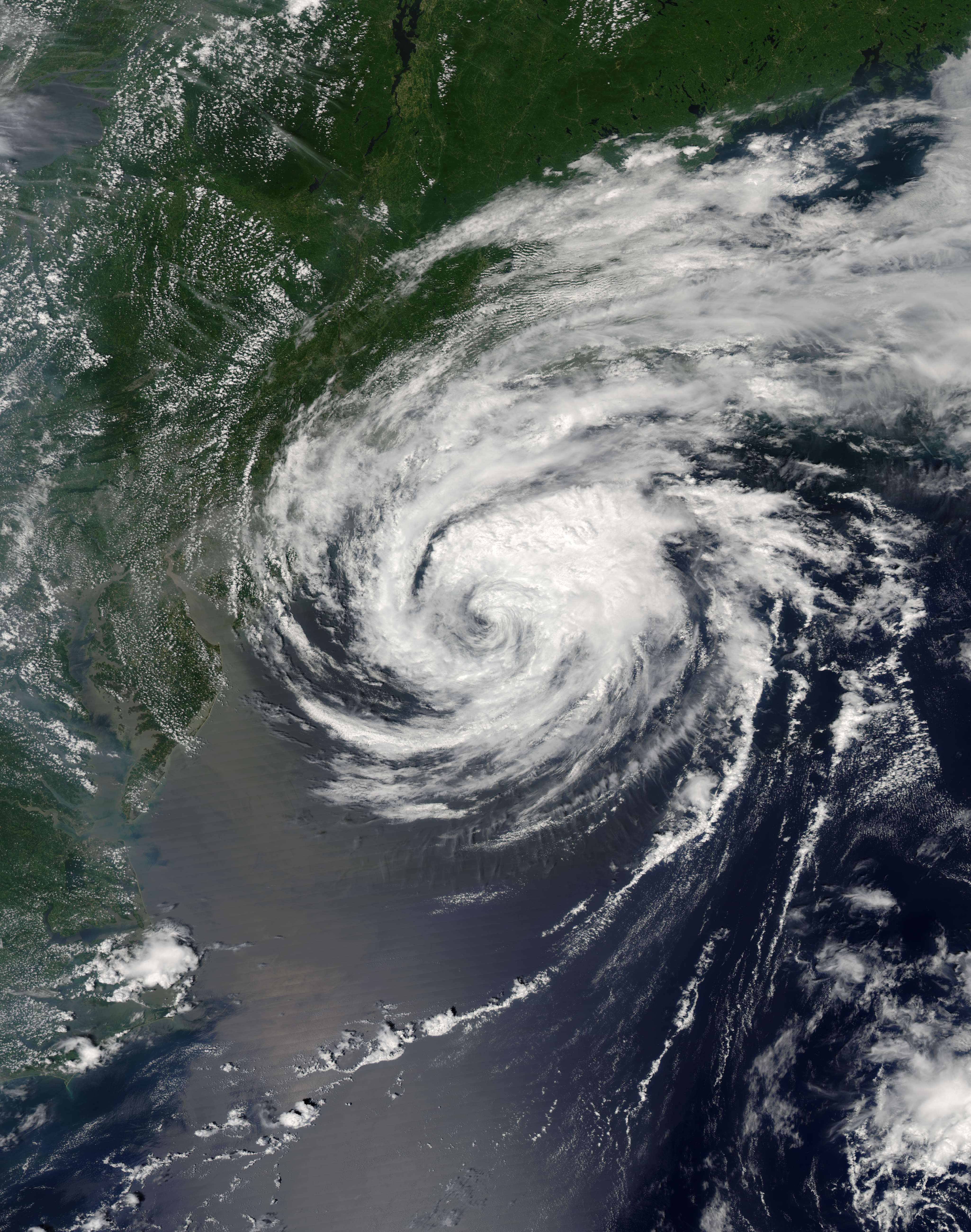 Rains from Tropical Storm Beryl were already affecting Long Island when the Moderate Resolution Imaging Spectroradiometer (MODIS) on NASA’s Aqua satellite captured this image at 2:00 p.m. Eastern Daylight Time (18:00 UTC) on July 20, 2006. The storm formed a loose spiral of clouds as it moved up the U.S. East Coast at 17 kilometers per hour (11 miles per hour). At the time, the storm’s winds were 95 km/hr (60 mph), with stronger gusts, reported the National Hurricane Center. Later in the day and into July 21, Beryl’s center passed over Nantucket Island and clipped Cape Cod. The National Hurricane Center expected the storm to pass over Nova Scotia, Canada, on Friday, July 21, and strike Newfoundland the next day. Beryl was offshore of New Jersey, Long Island, and Connecticut when MODIS captured this photo-like image. The silver streak over the ocean to the left of the storm is the Sun’s reflection off the water. Tropical Storm Beryl formed in the northwestern Atlantic on July 18, 2006, roughly 200 kilometers (120 miles) southeast of North Carolina’s Outer Banks. Later that day, the storm gathered just enough power to reach tropical storm status and become the second named storm system of the 2006 Atlantic hurricane season. The high-resolution image provided above is provided at the full MODIS spatial resolution (level of detail) of 250 meters per pixel. The MODIS Rapid Response System provides this image at additional resolutions.